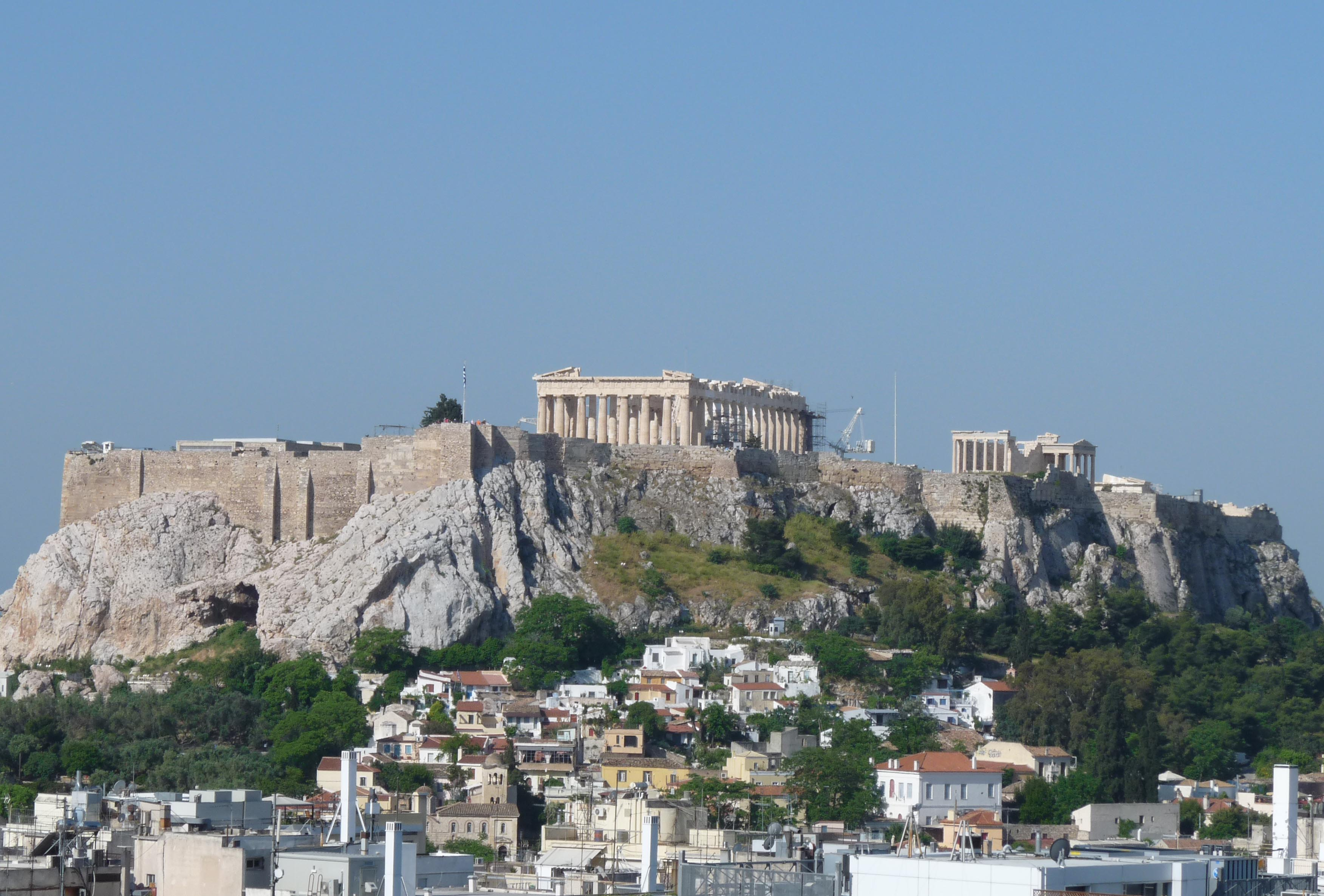 Acropolis 08